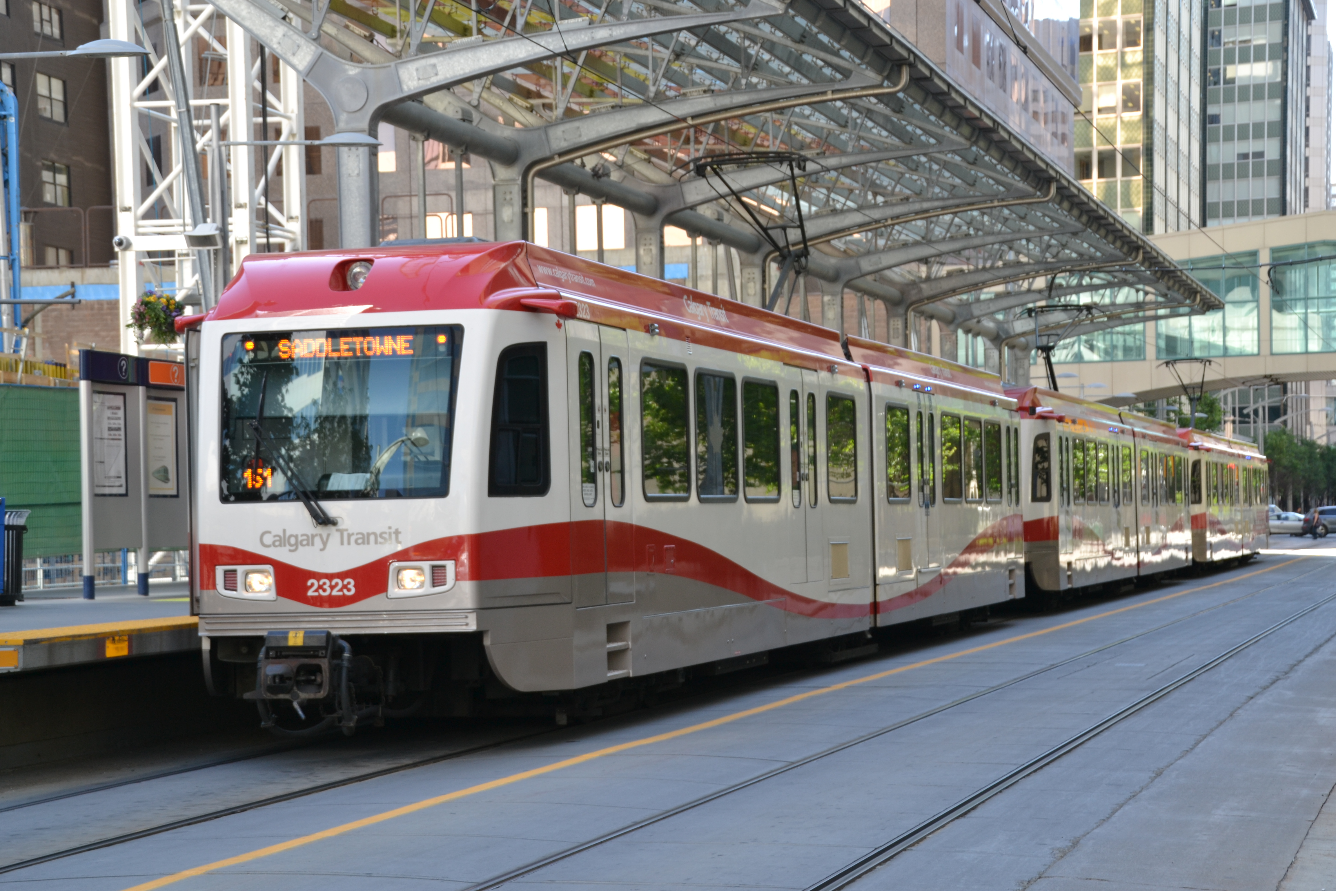 A Siemens SD-160NG train in Calgary